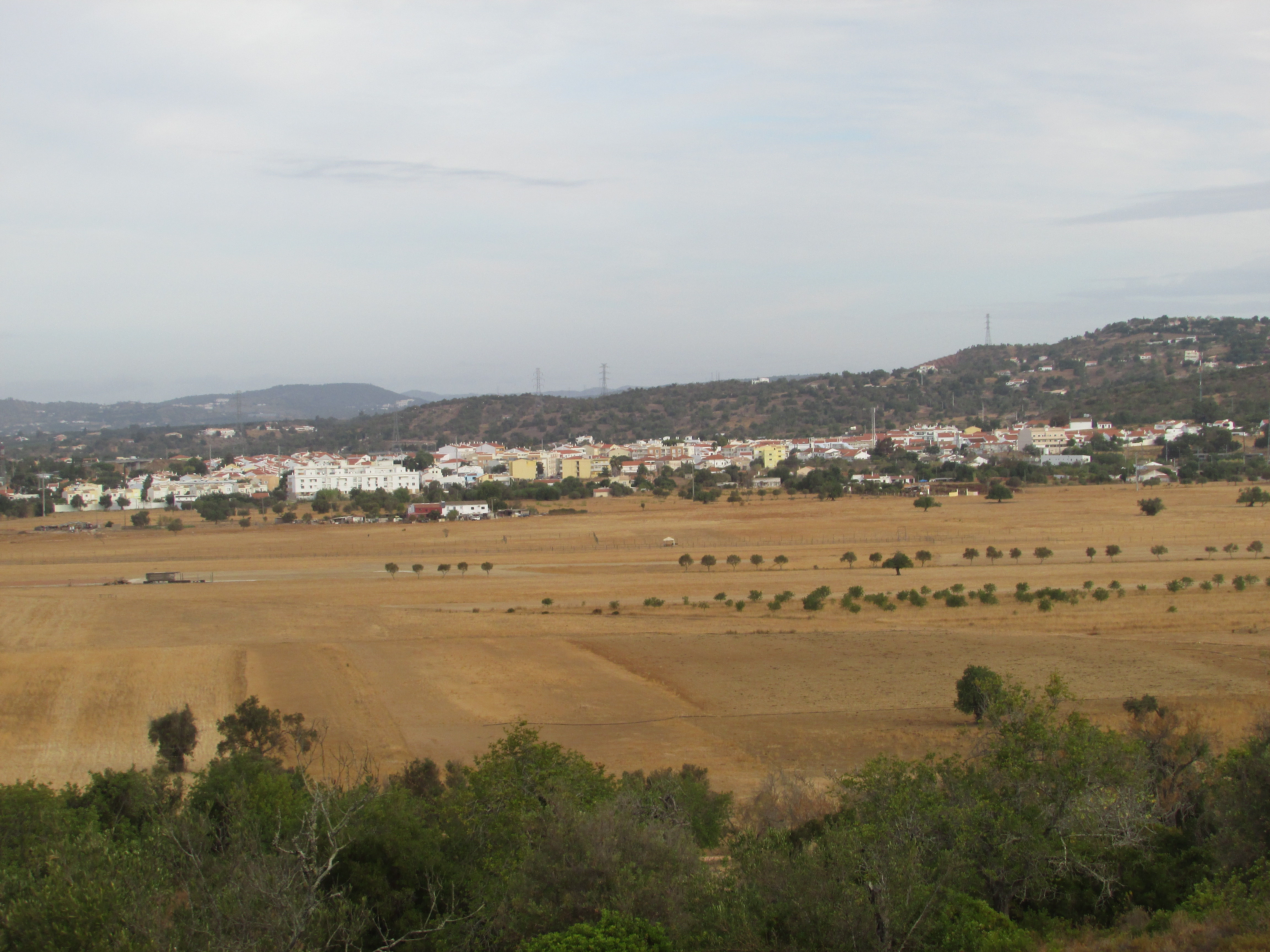 A view across the village of Tunes from the raised ground near to the south. The village is in the municipality of silves, Algarve,Portugal.